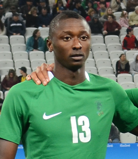 São Paulo - Colômbia vence a Nigéria por 2x0 na Arena Corinthians (Rovena Rosa/Agência Brasil)